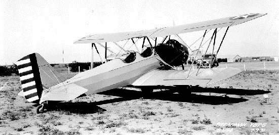 Stearman YBT-5 basic trainer, s/n 31-462.